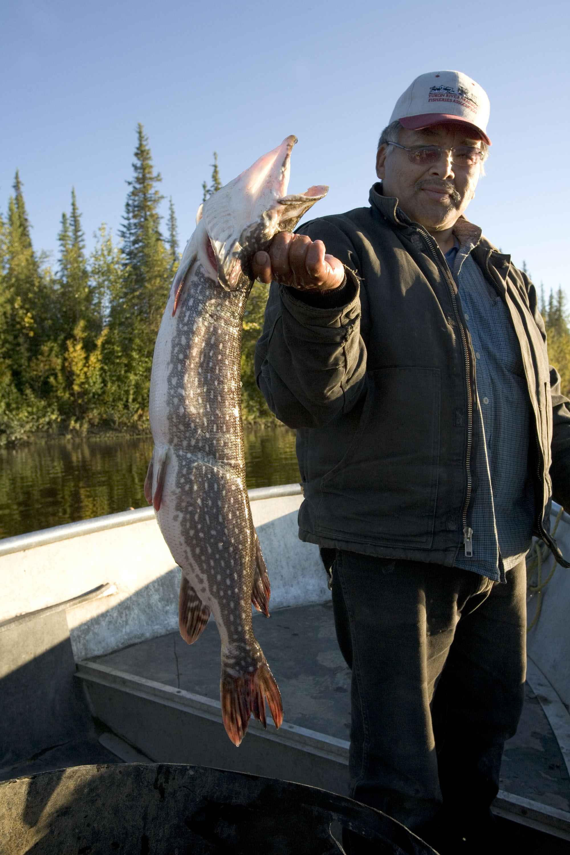 Image title: Subsistence caught northern pike Image from Public domain images website